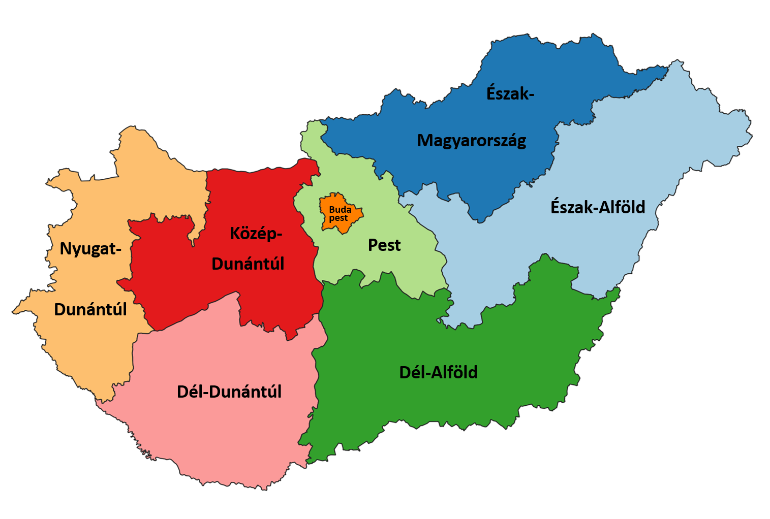 NUTS 2 regions of Hungary, NUTS 2016 classification (valid from: 01/01/2019)